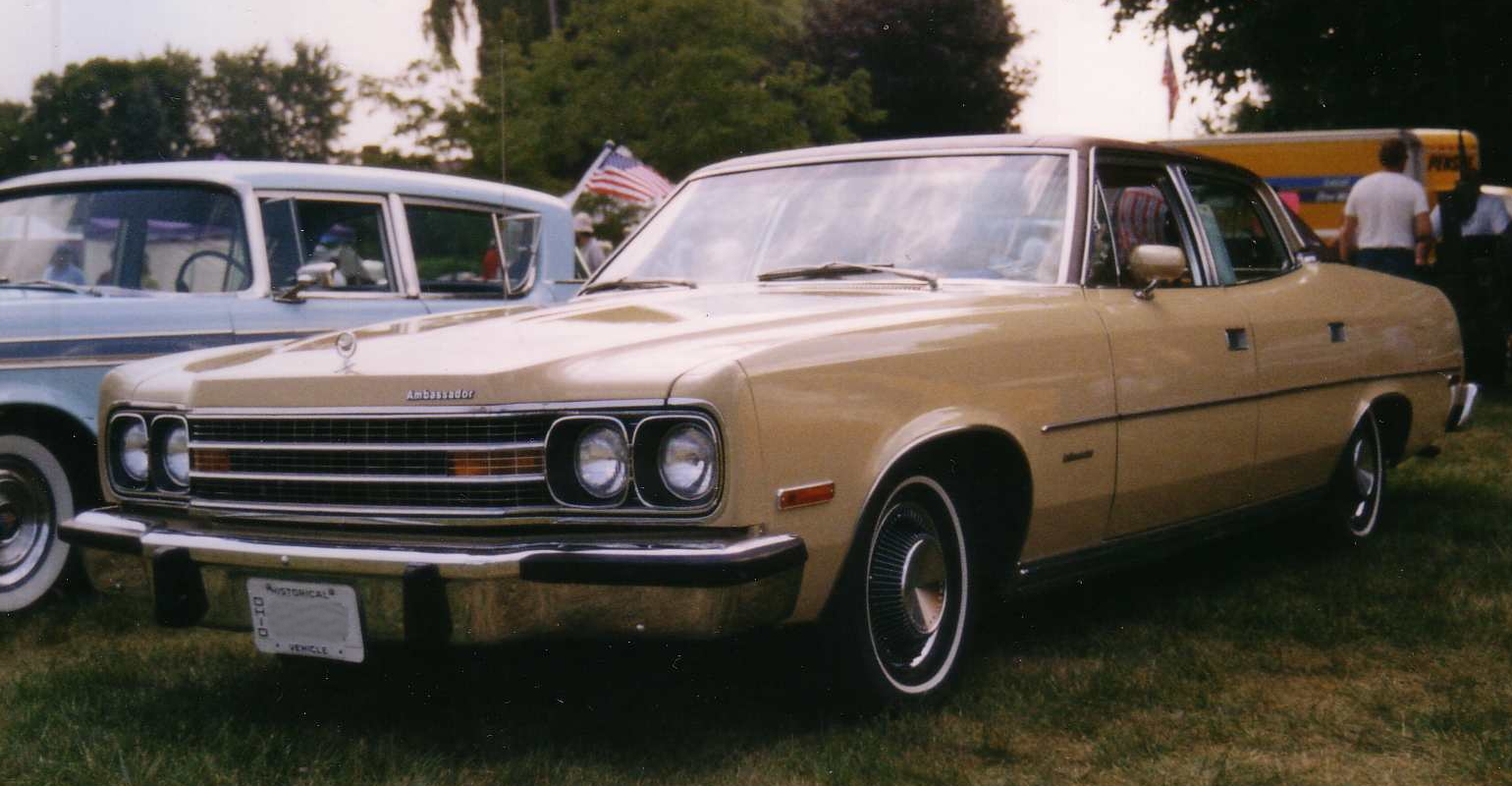 American Motors Corporation 1974 AMC Ambassador Brougham four-door sedan finished in beige with vinyl covered roof.